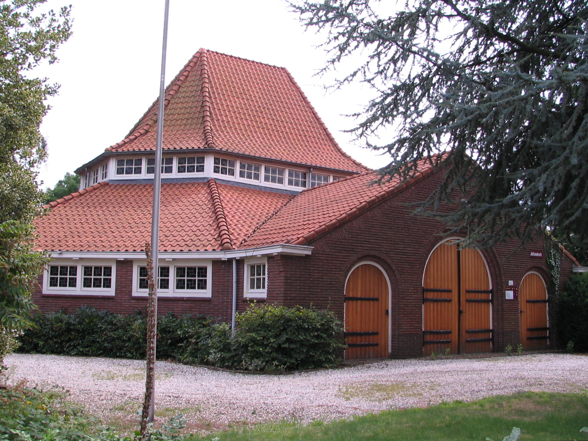 Julianakerk, Julianalaan 42 Bilthoven (municipality De Bilt, The Netherlands). Date: Augustus 2012.